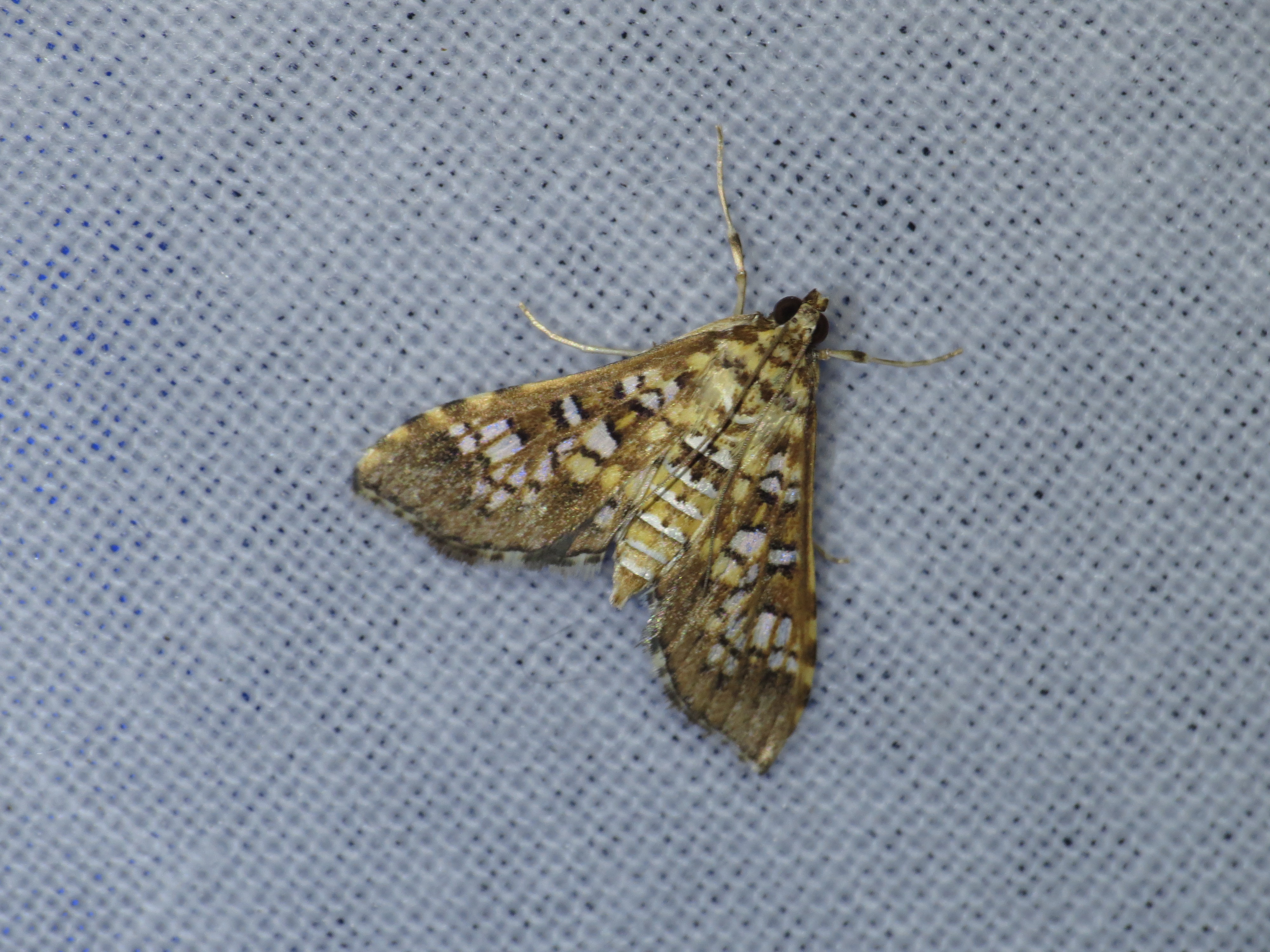 Samea ecclesialis Guenée, 1854, to MV light, Kissimmee, Florida, 2/3 May 2015 Identification based on pattern in forewing fringe and wide yellowish blotch as marked in comparative images here